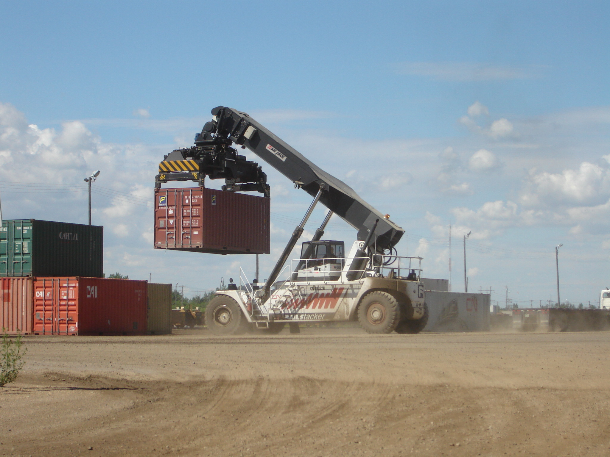 CN Chappell Yards Box Car Loader CN yards Management Area Saskatoon|Saskatoon